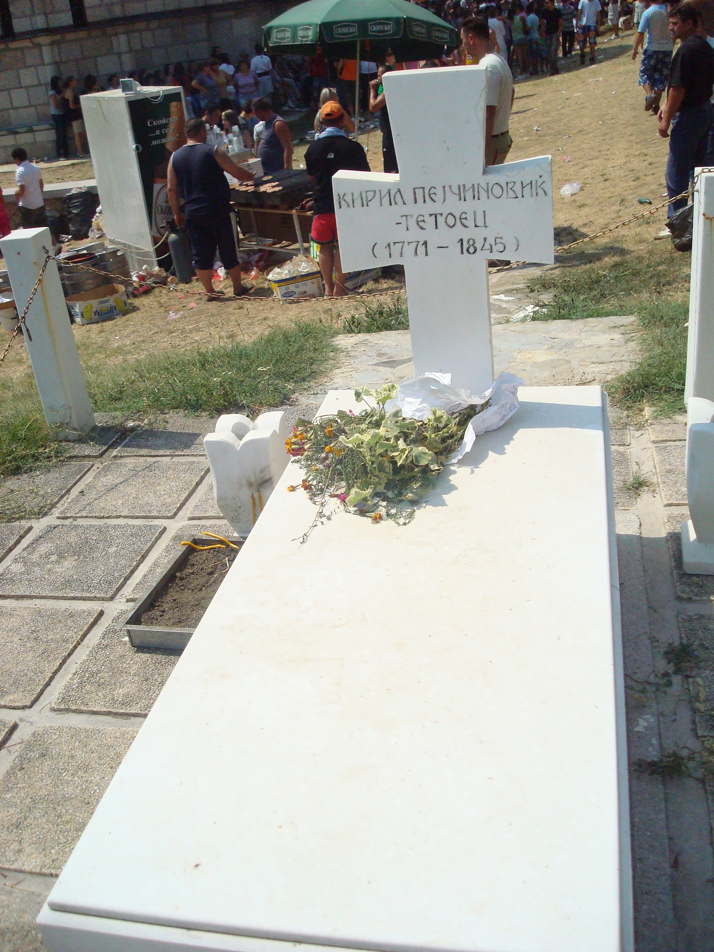 The tomb of writer and enlightener Kiril Peychinovich in Lešok, Republic of Macedonia